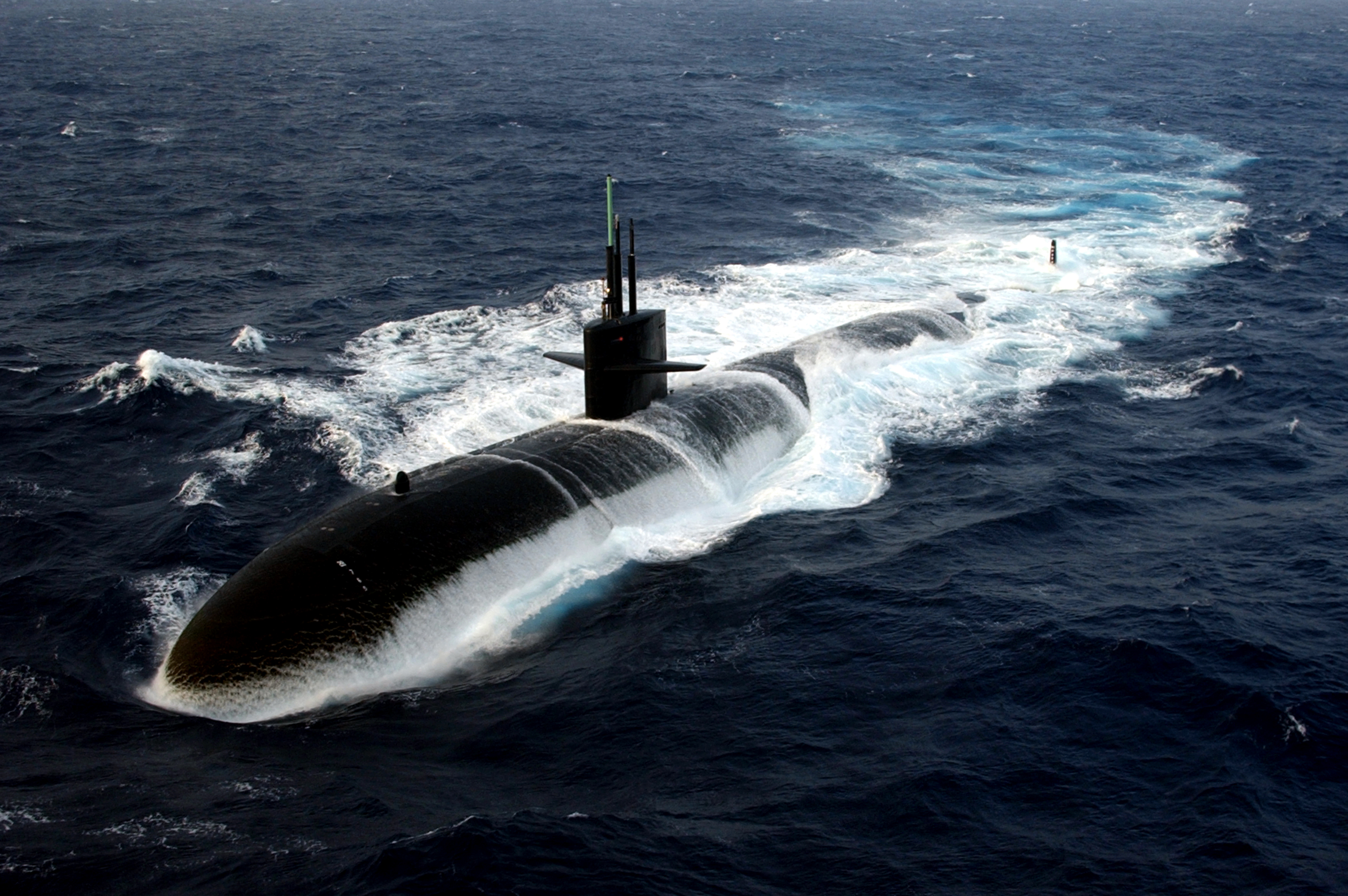 Atlantic Ocean (July 12, 2004) -- The Los Angeles-class submarine USS Albuquerque (SSN 706) surfaces in the Atlantic Ocean while participating in Majestic Eagle 2004. Majestic Eagle is a multinational exercise being conducted off the coast of Morocco. The exercise demonstrates the combined force capabilities and quick response times of the participating naval, air, undersea and surface warfare groups. Countries involved in the NATO-led exercise include the United Kingdom, Morocco, France, Italy, Portugal, Spain, and Turkey. Albuquerque's participation in Majestic Eagle is part of her scheduled deployment supporting the Navy's new fleet response plan (FRP) and Summer Pulse '04, the simultaneous deployment of seven carrier strike groups (CSGs), demonstrating the ability of the Navy to provide credible combat power across the globe, in five theaters, with other U.S., allied, and coalition military forces. U.S. Navy photo by Photographer's Mate Airman Rob Gaston (RELEASED)